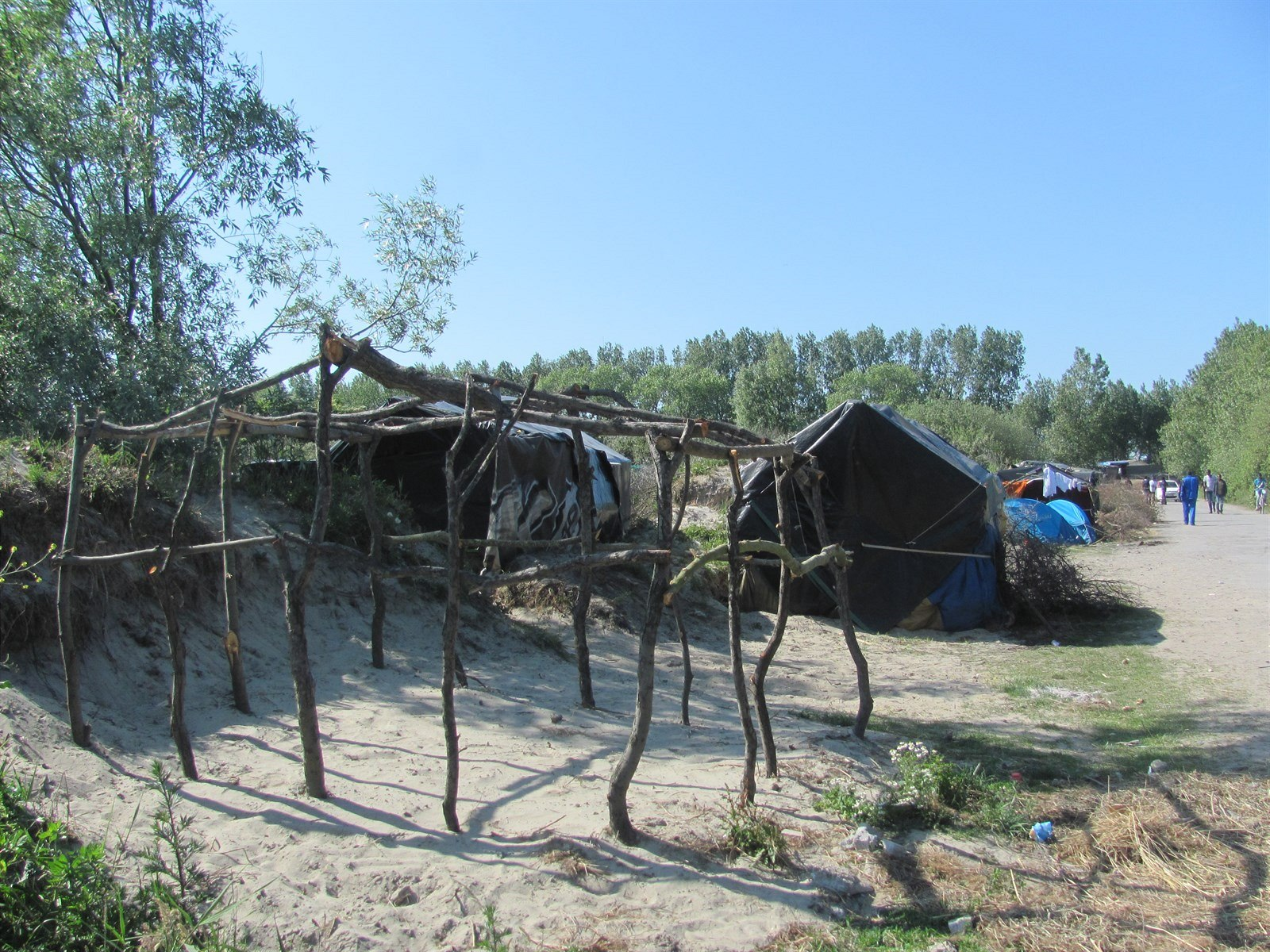 "The Jungle" refugee camp outside Calais, 18th June 2015. Originally published at iDNES.cz